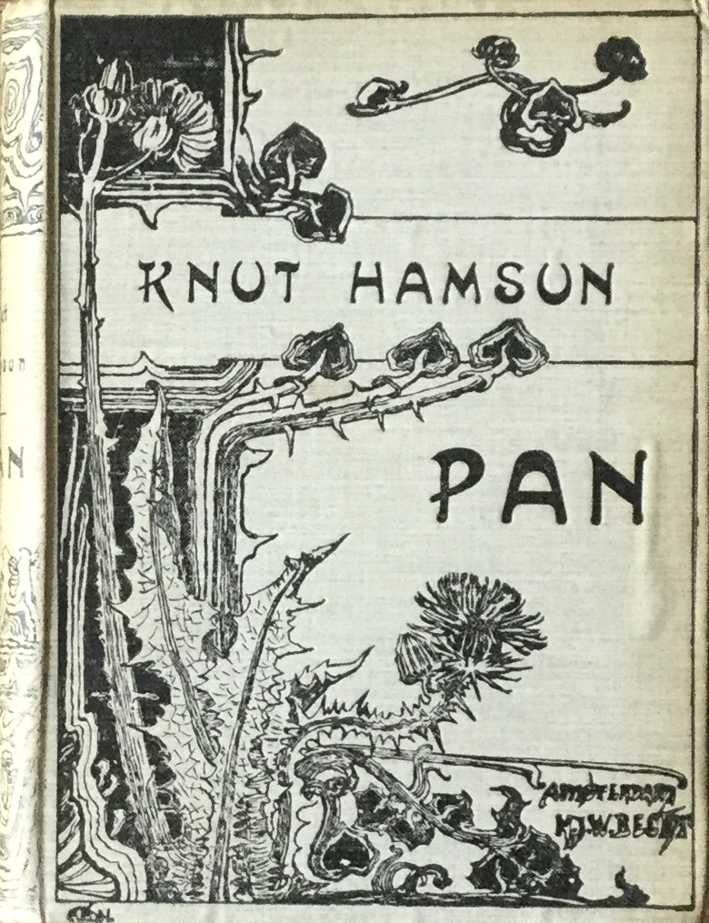 Cover first Dutch edition Pan, By Knut Hamsun